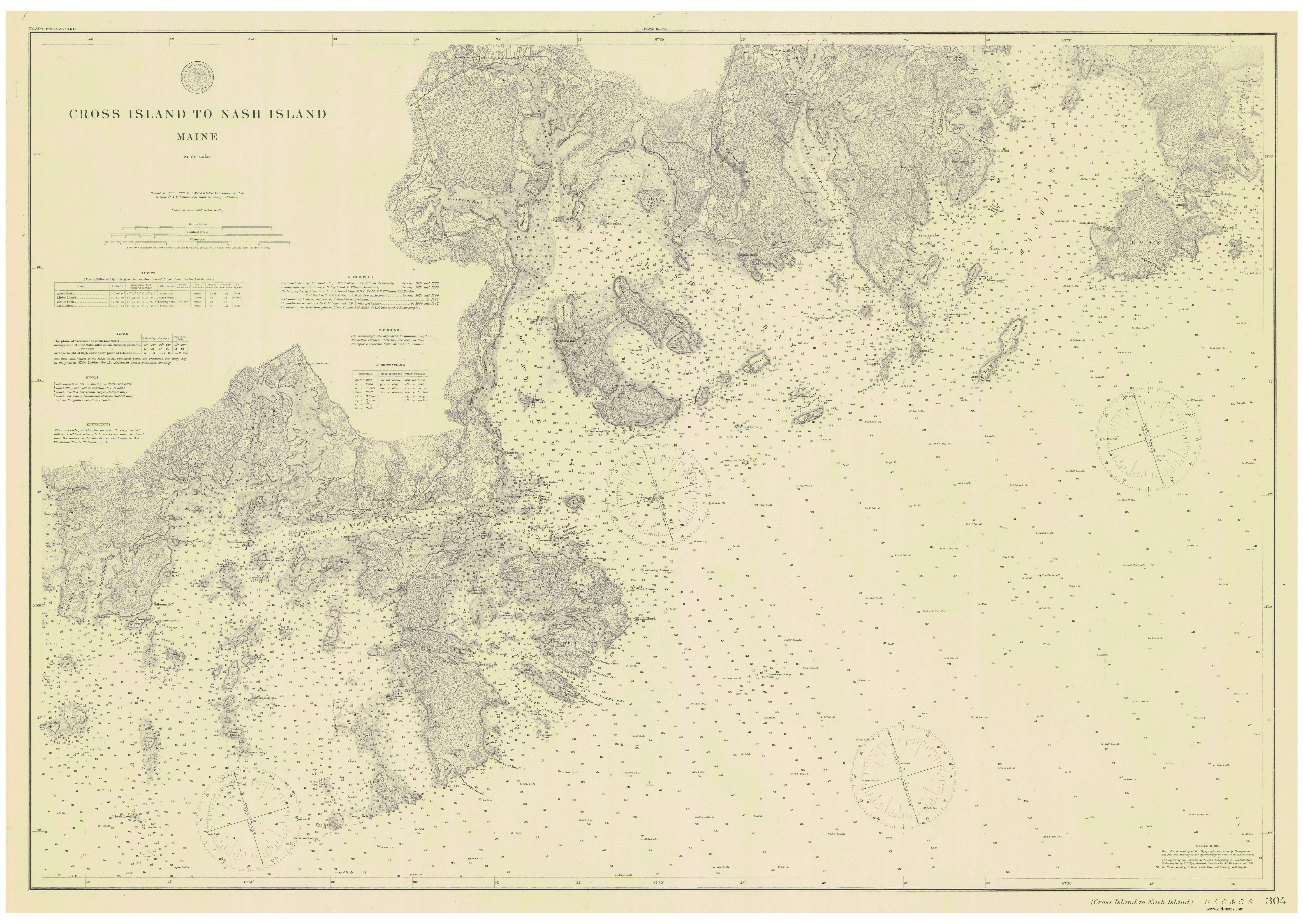 Nautical Chart Cross Island to Nash Island, Maine, USA